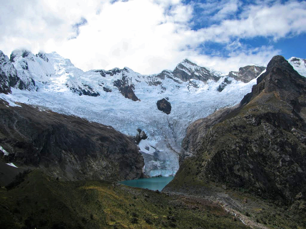 Arhuay glacier located in central Peru in the Cordillera Blanca (White Range).